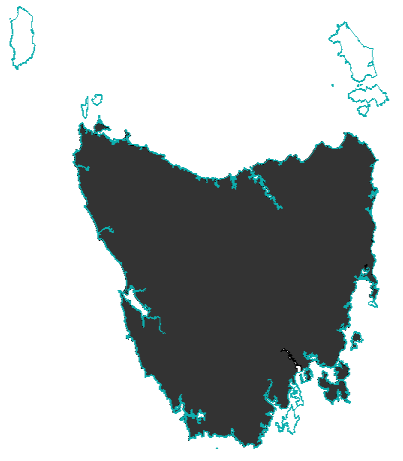 Map showing the extent of the Tasmanian Devil, made from data generated in 2008 by the IUCN, and using an Australian coastline vector from CloudMade Downloads. Shows the Tasmanian Devil's extent on the main island of Tasmania and Robbins Island.